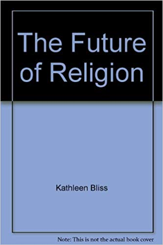 The Future of Religion